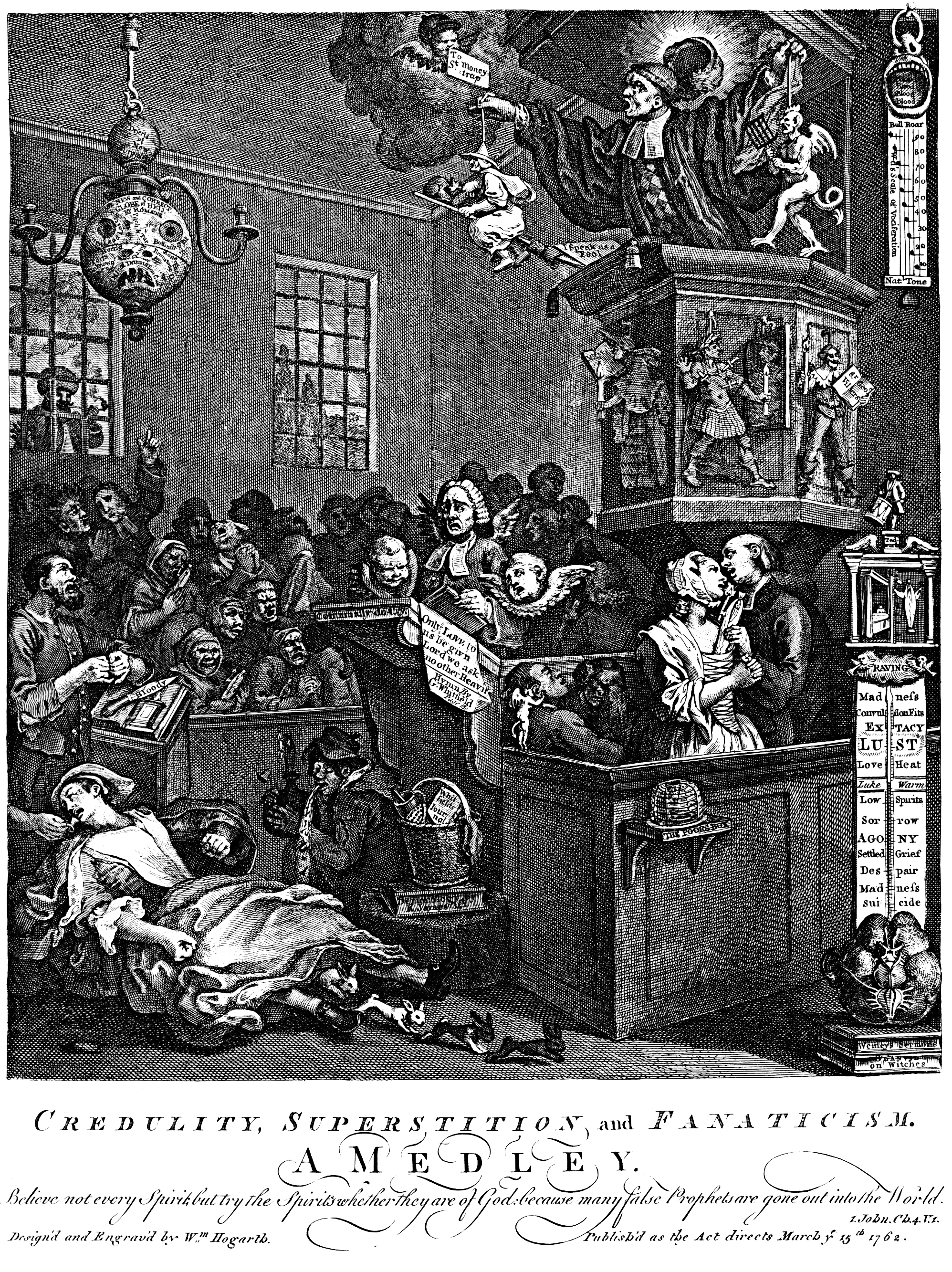 William Hogarth - Credulity, Superstition, and Fanaticism. The image is a re-imagining of his earlier work, Enthusiasm Delineated.